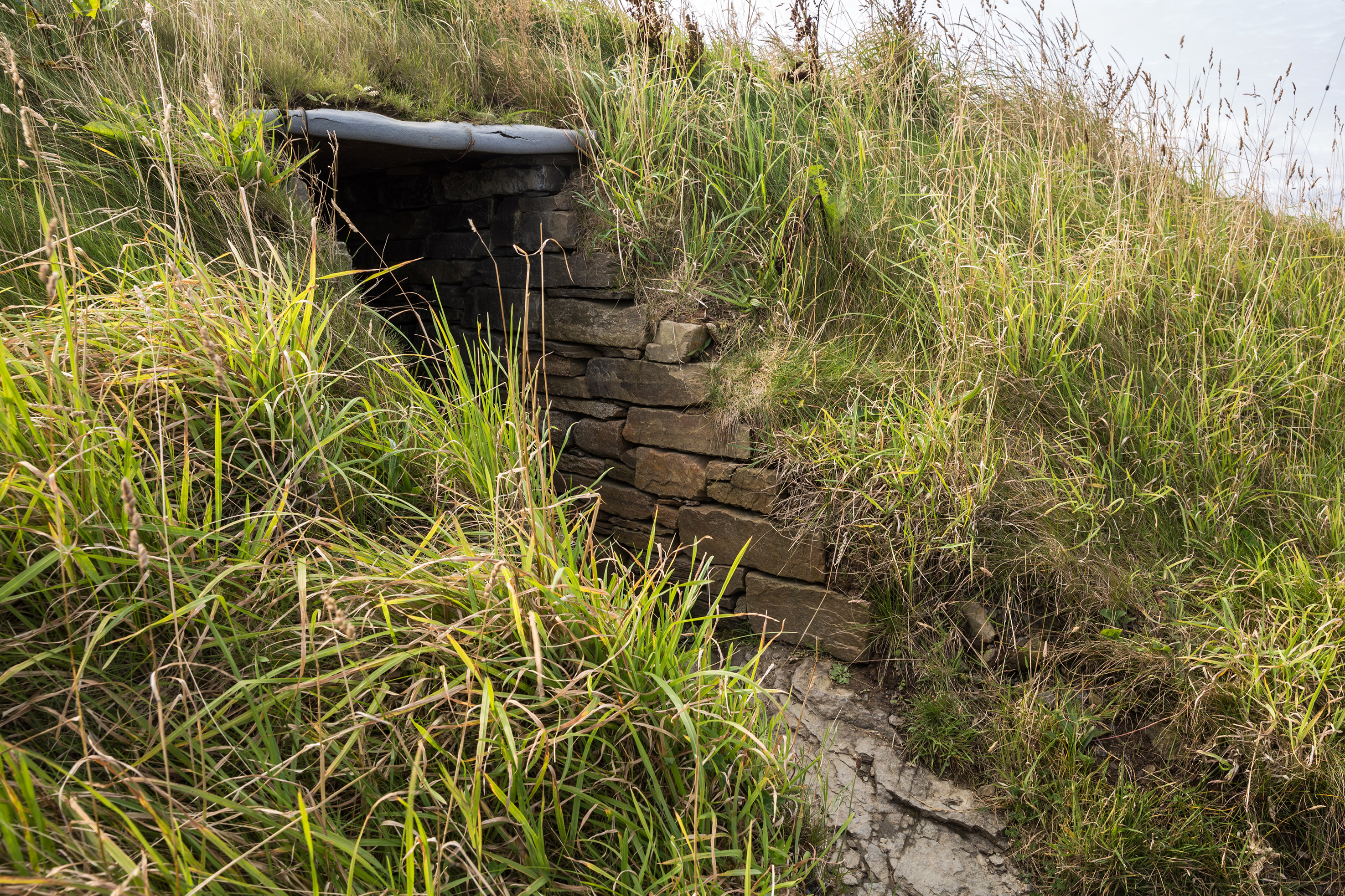 Banks Chambered Tomb (Tomb of the Otters), on South Ronaldsay, Orkney Islands, Scotland